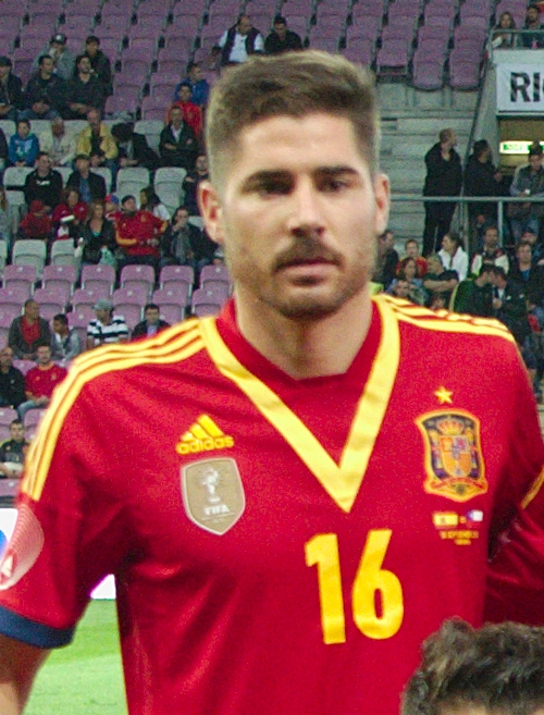 Spain - Chile - 10-09-2013 - Geneva - Spain team - Javi Garcia